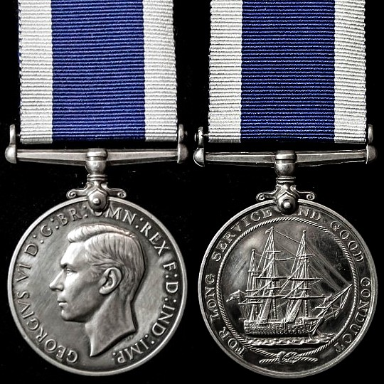 The King George VI version of the Naval Long Service and Good Conduct Medal (1848)